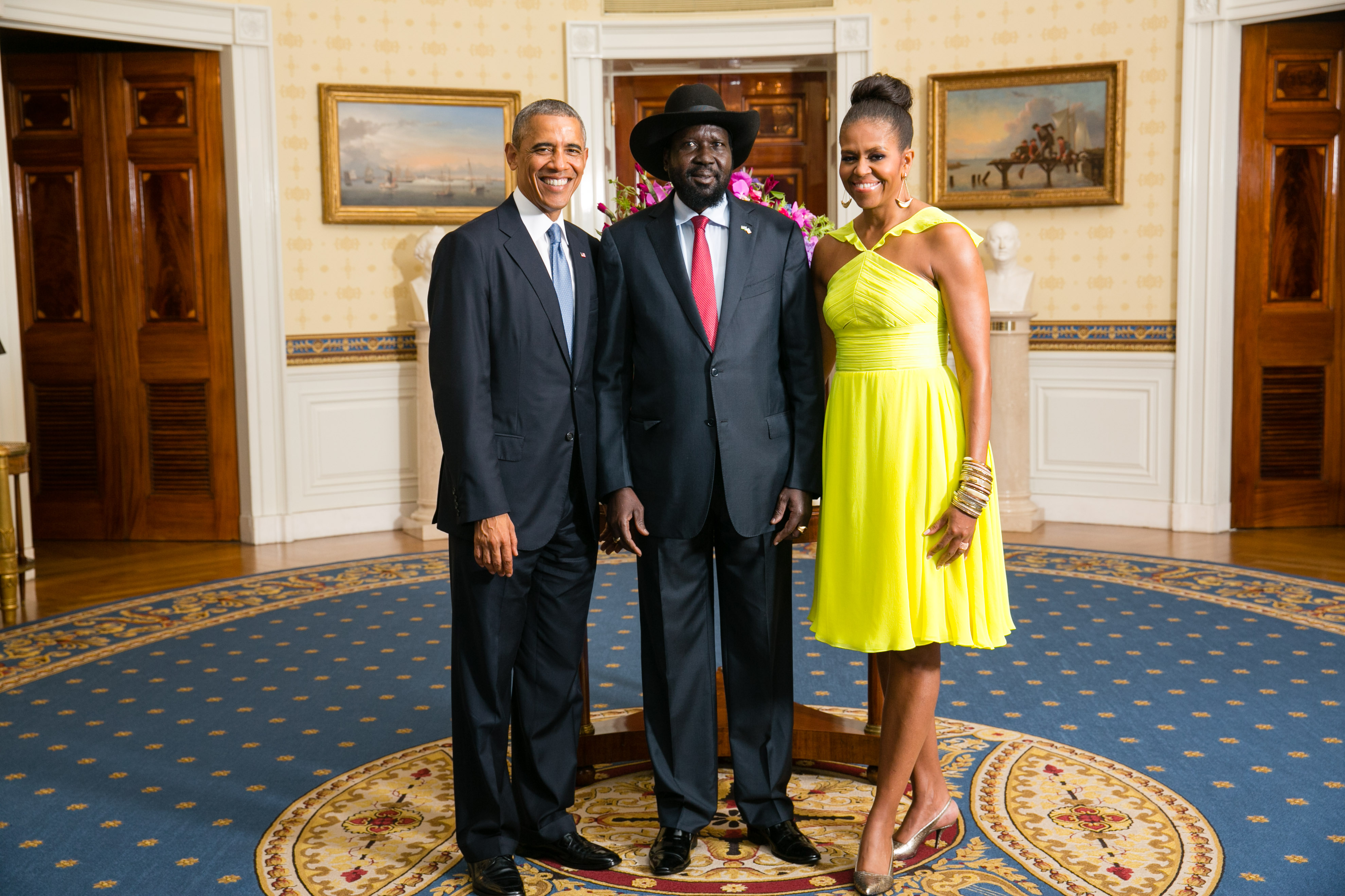 President Barack Obama and First Lady Michelle Obama greet His Excellency Salva Kiir Mayardit, President of the Republic of South Sudan, in the Blue Room during a U.S.-Africa Leaders Summit dinner at the White House, Aug. 5, 2014. [Official White House Photo by Amanda Lucidon/ This official White House photograph is in the public domain from a copyright perspective, so while restrictions such as personality or privacy rights may apply, in general, manipulations are allowed.]